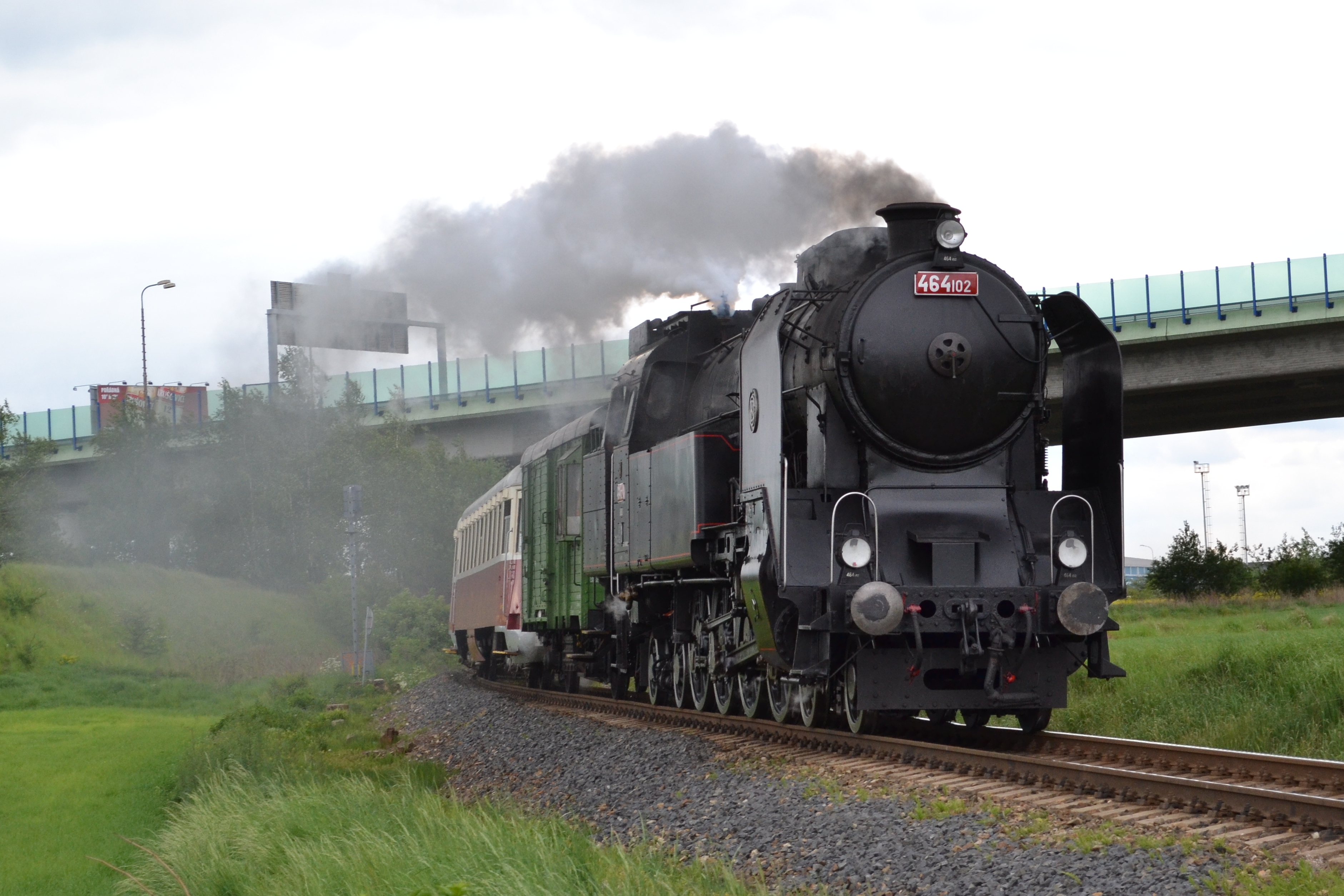 Steam locomotive ČSD Class 464.102. A historic train on railway line 120 near Praha-Ruzyně station, Prague, Czech Republic.